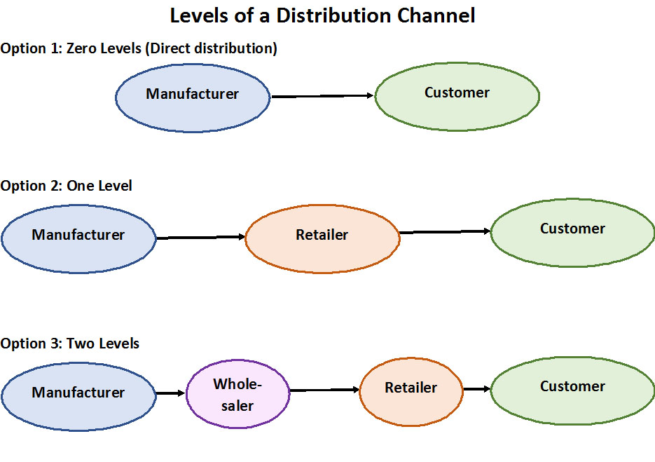 image of levels in a distribution system (designed by me after noting a template said that the article was too technical for people to understand). It needs diagrams to help explain